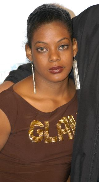 Aaliyah Brown at Britney Rears 3 party, September 23 2006